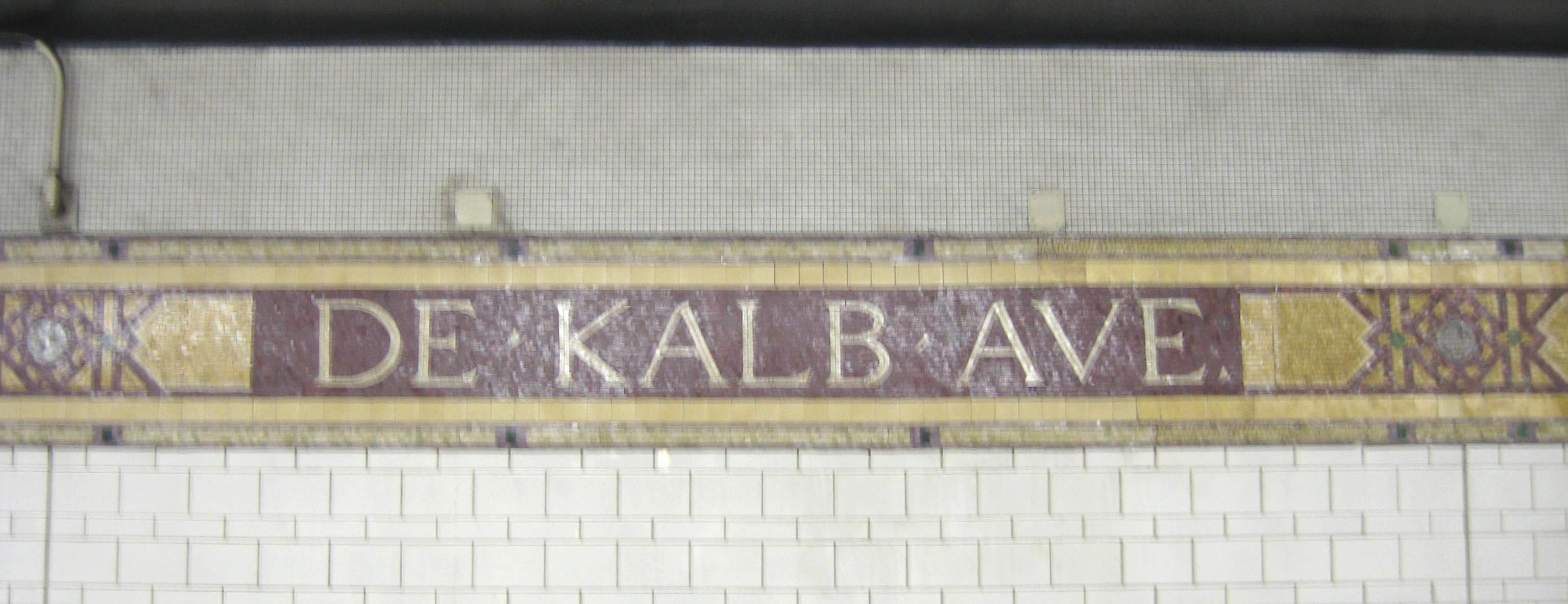 Station identification mosaic for southbound platform of DeKalb Avenue (BMT Fourth Avenue Line)